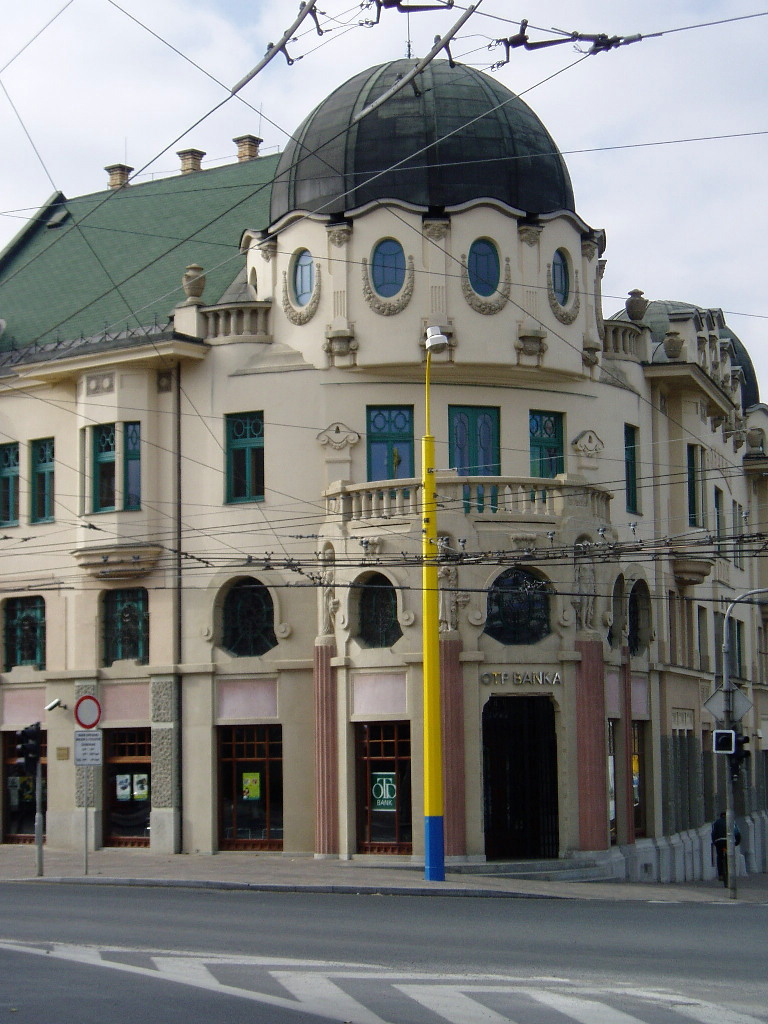 Bosák's bank in Prešov, architect: Viliam Grosz, 1923-24